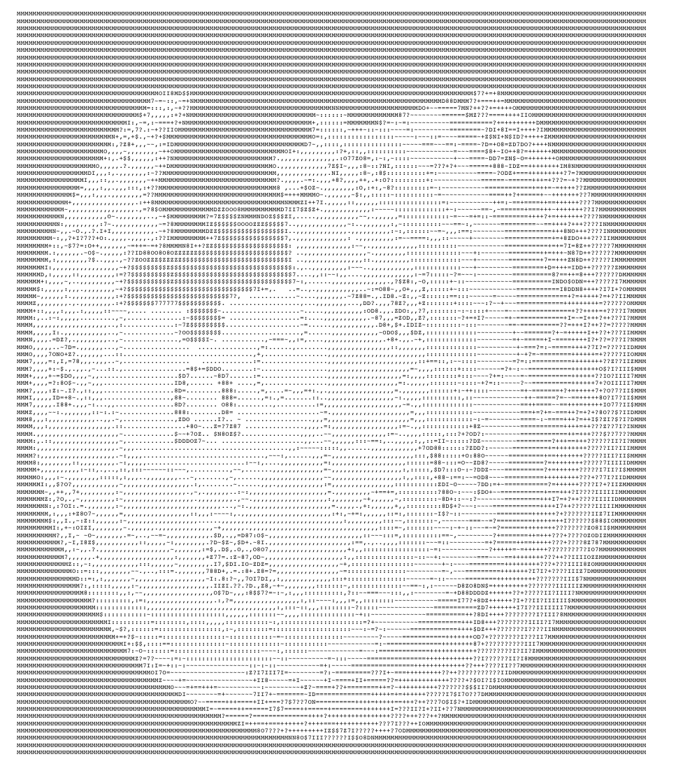 ASCII Art of Wikipedia Logo